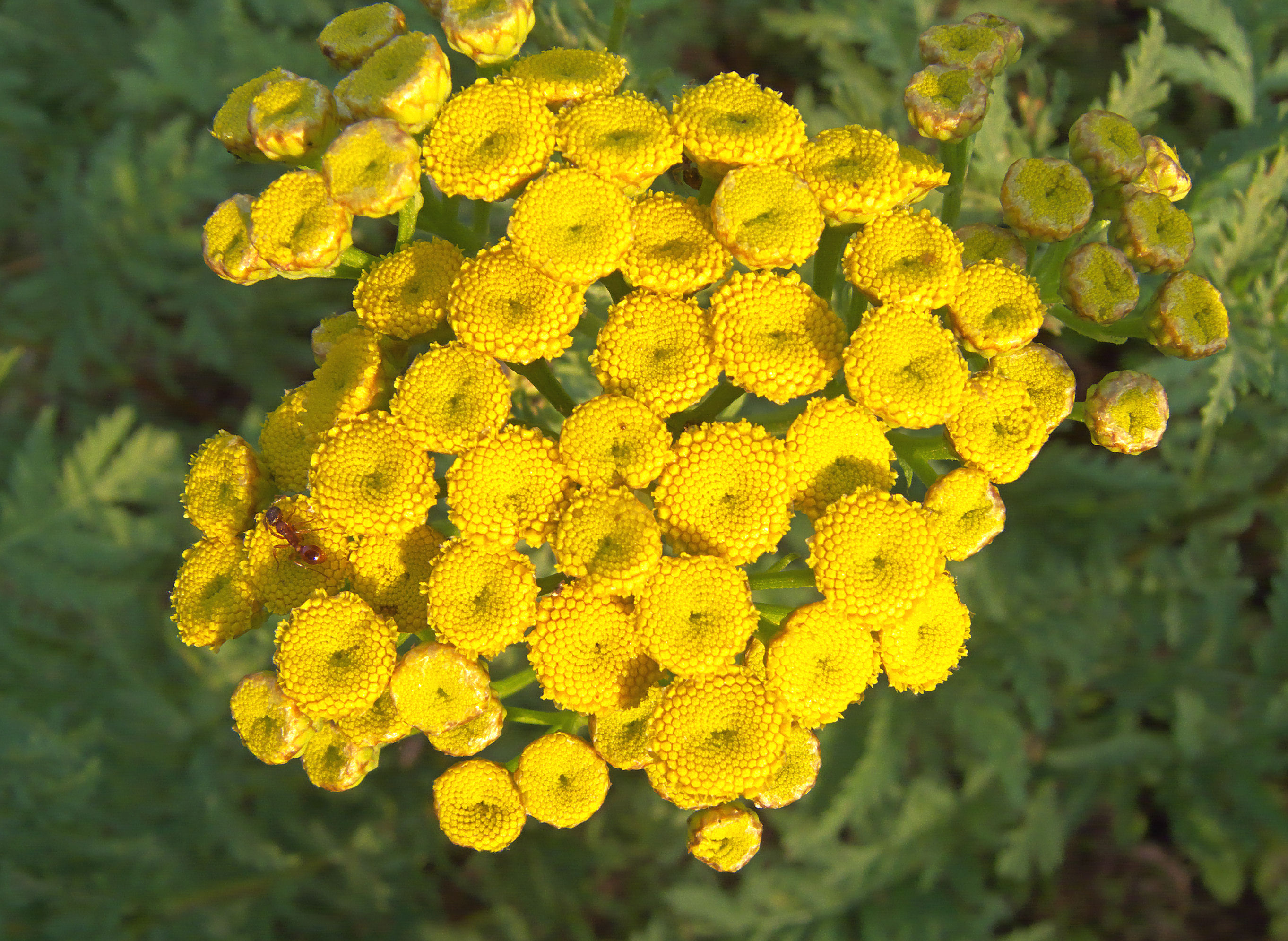 Tanacetum vulgare